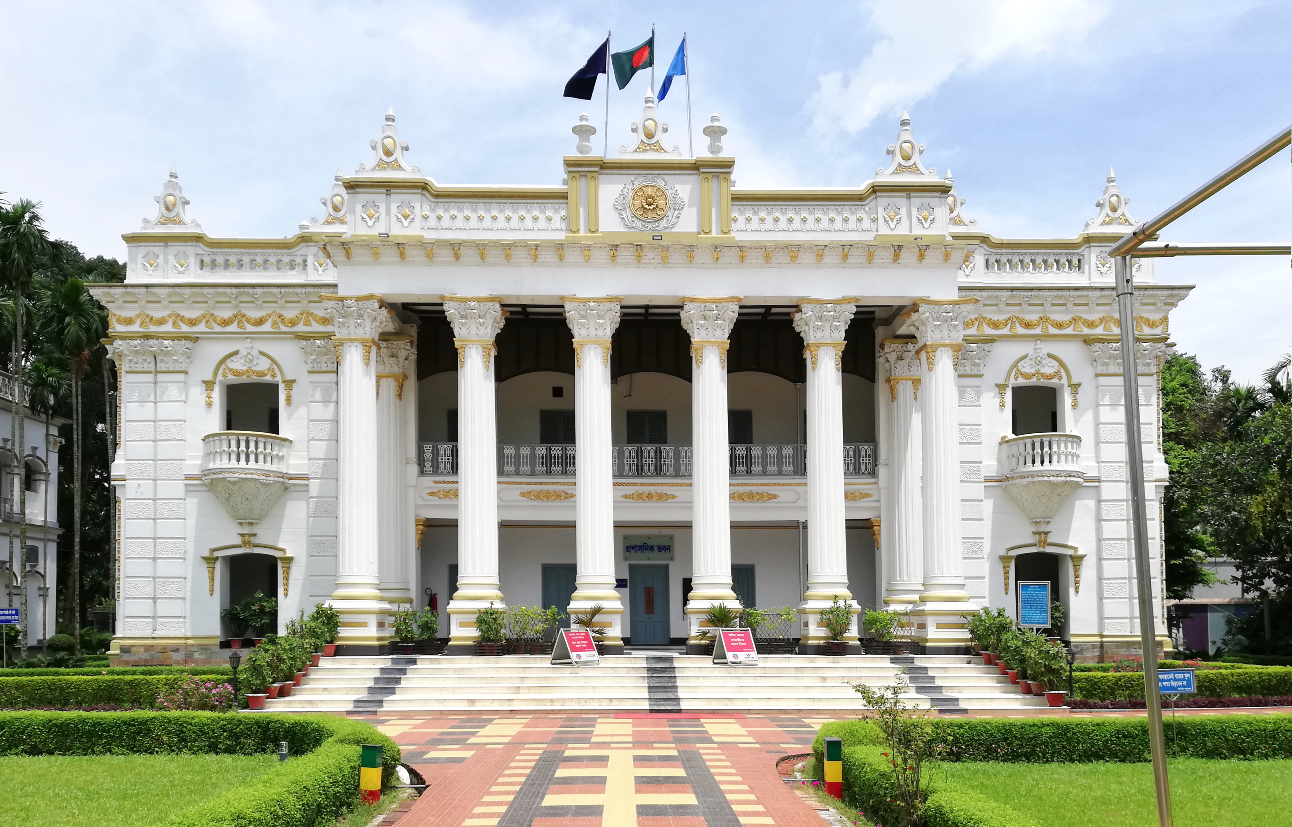 Mohera Zamindar Bari, Tangail